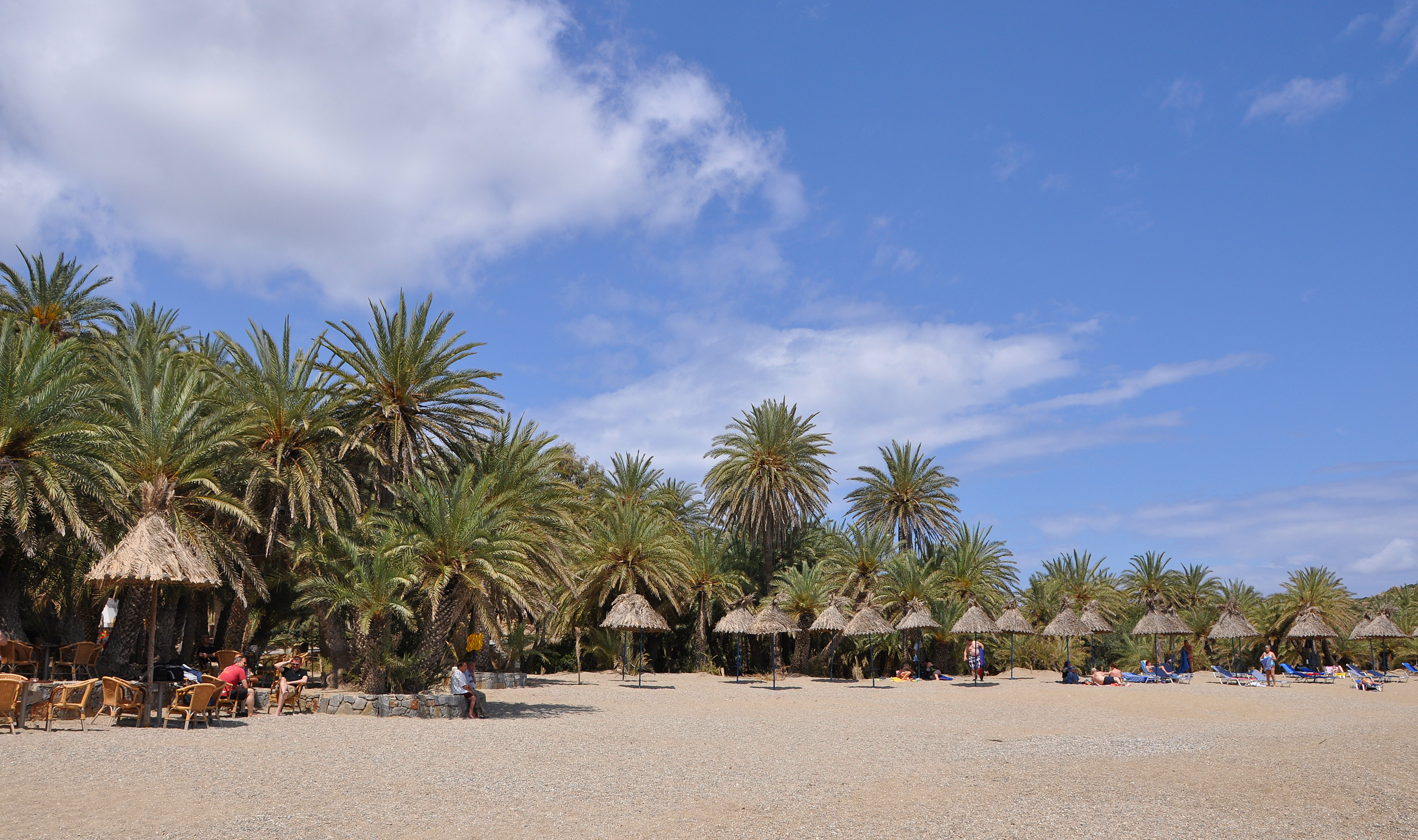 The Phoenix theophrasti palm beach of Vai (Crete, Greece)